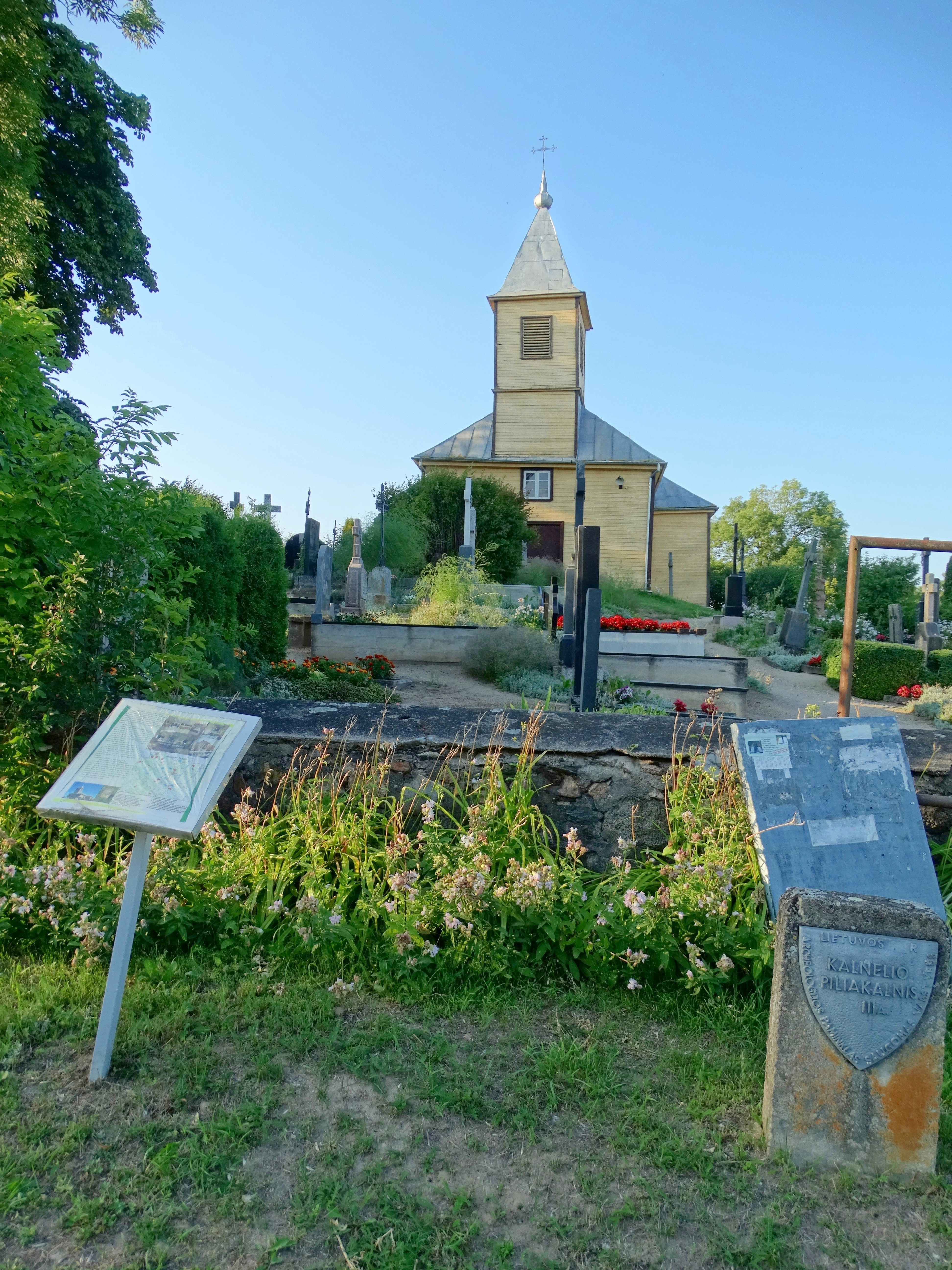 Cemetery chapel, Kalnelis, Joniškis district, Lithuania